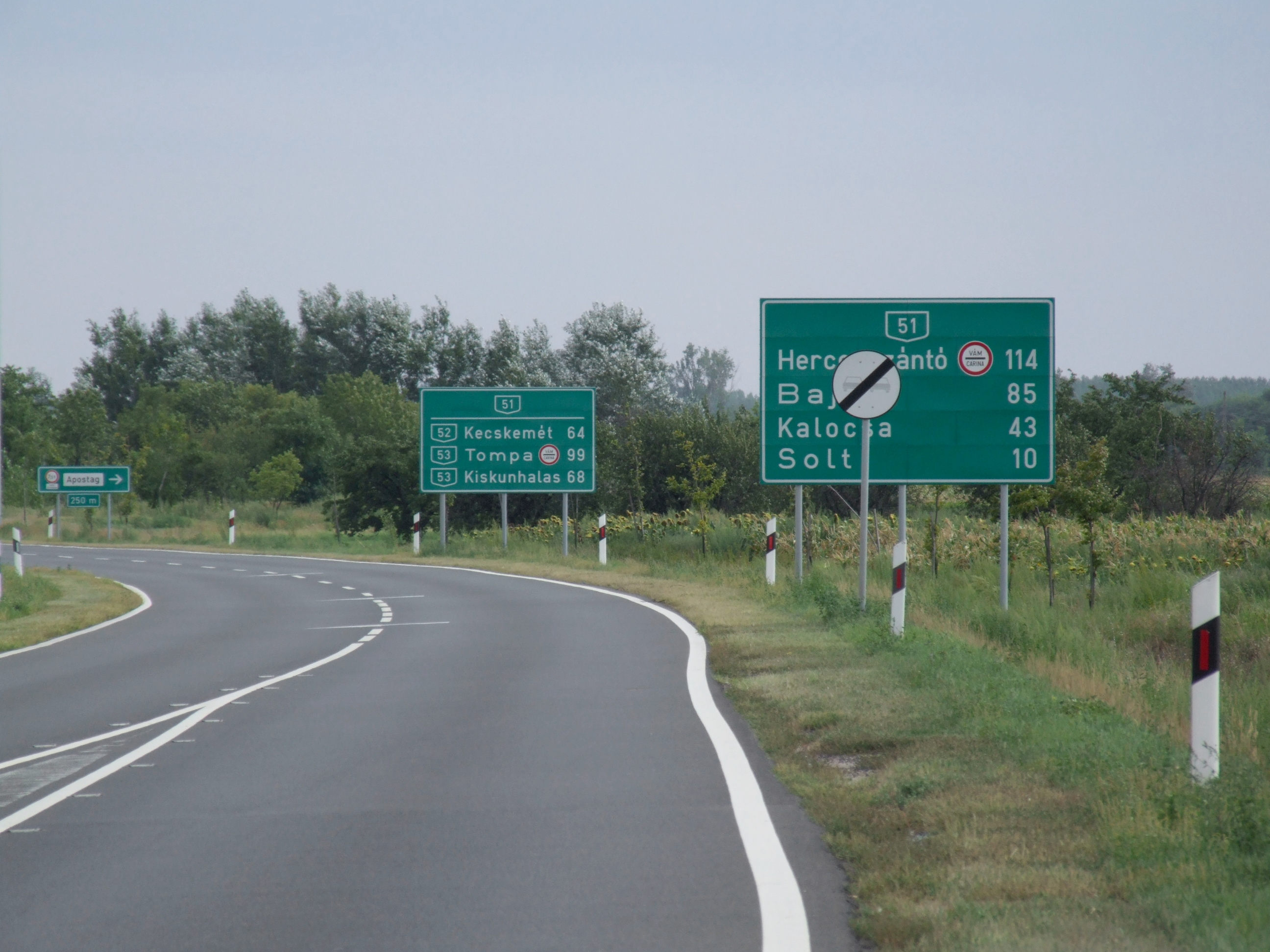 Road 51 in Hungary, near Apostag